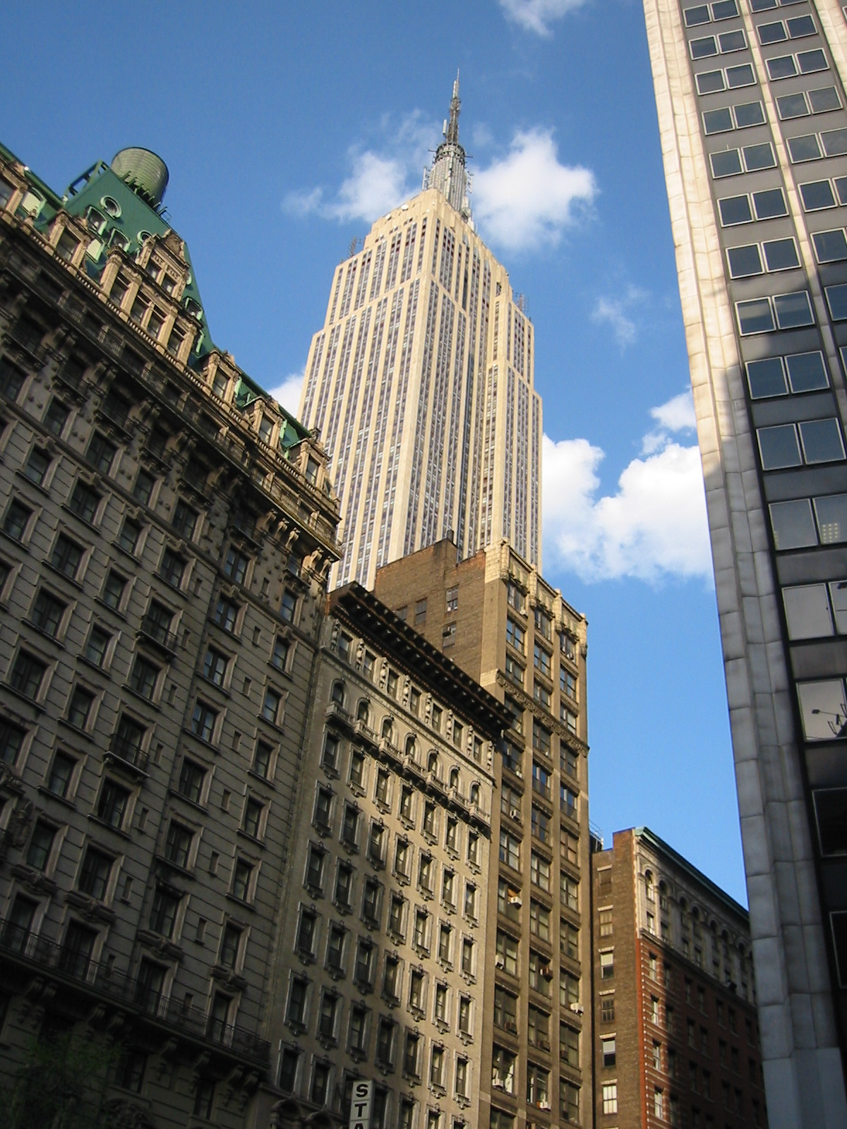 "Empire State Building"